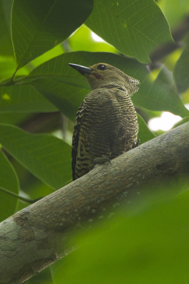 Buff-rumped Woodpecker - Thailand_S4E1745